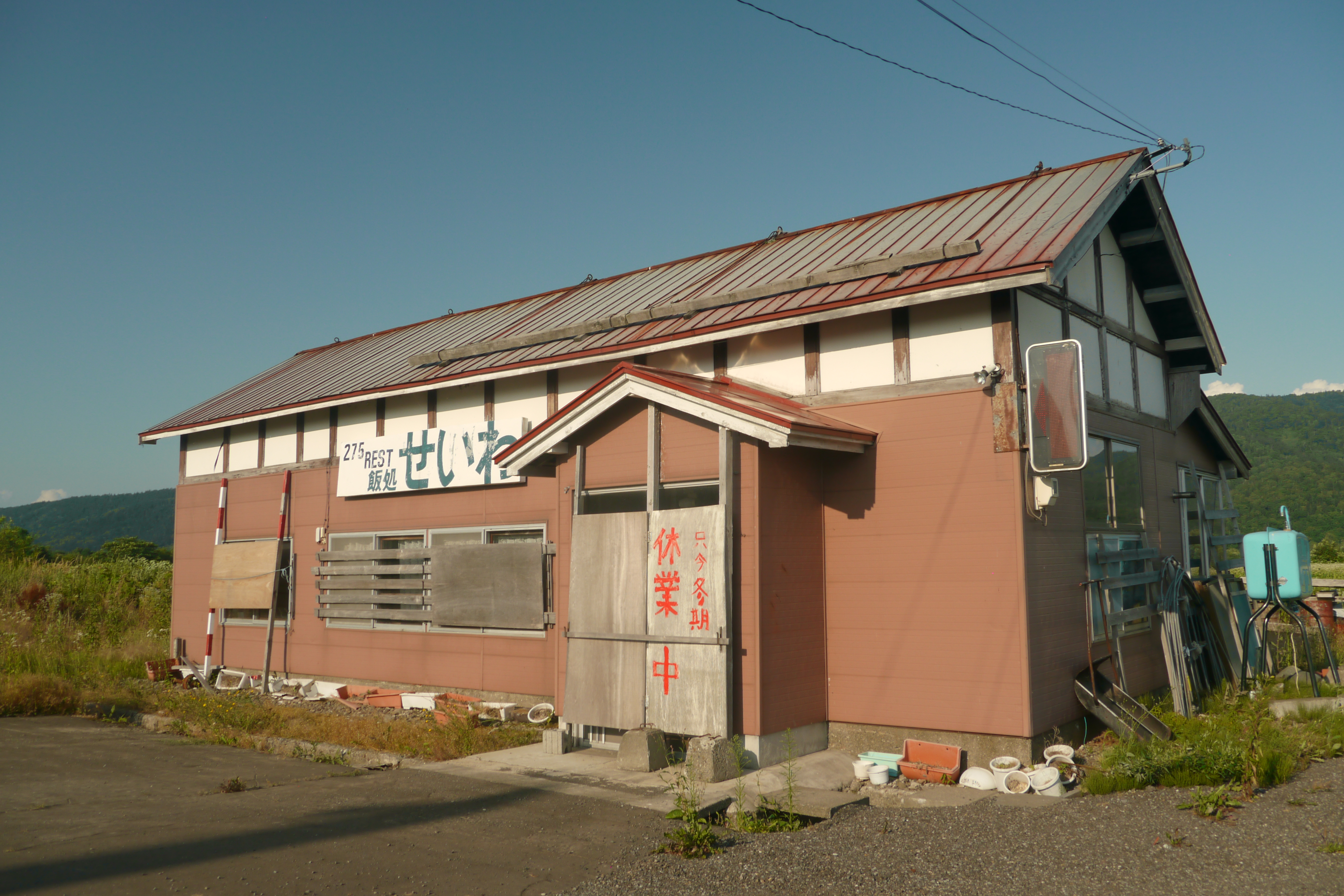 The remains of Seiwa Station of the Shinmei Line in Hokkaido, Japan